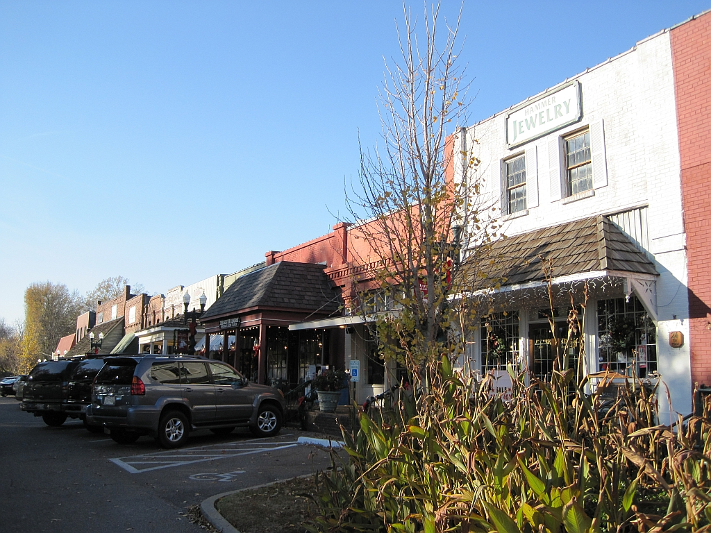 Around the town square Collierville, Tennessee